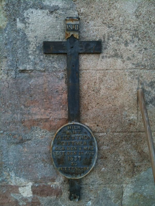 Elise von Thon-Dittmer, church Pettendorf